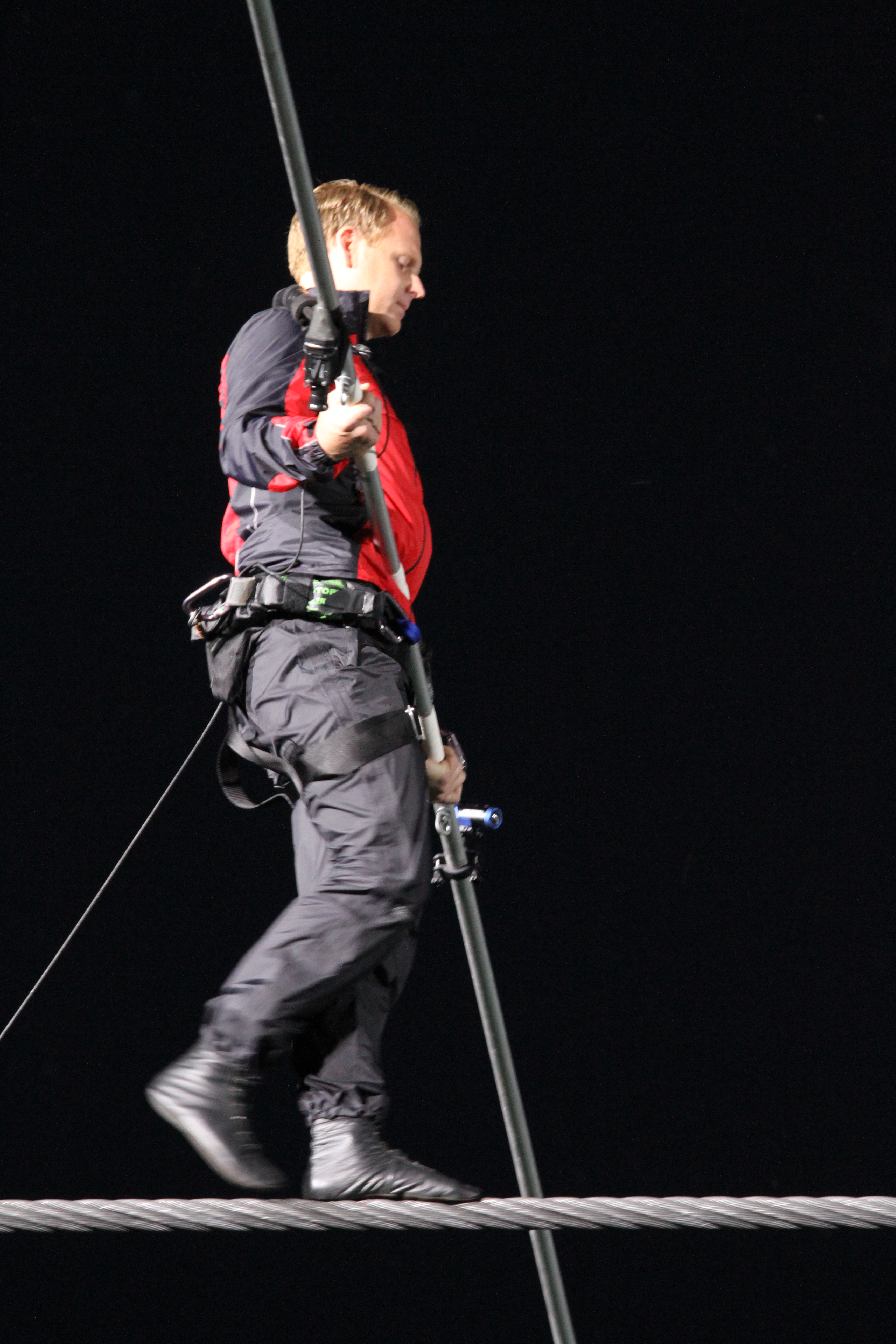 Closeup shot of Nik Wallenda as he crosses Niagara Falls June 16, 2012.